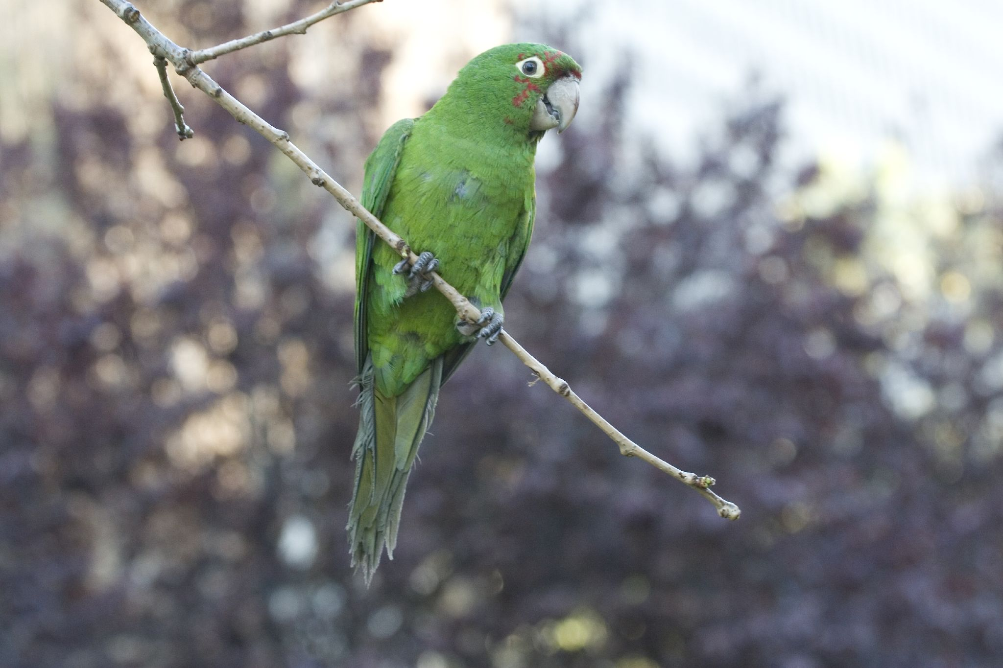 Red-masked parakeet (Aratinga erythrogenys). A juvenile parrot which is mostly green and just starting to get some red feathers on its head.Parrot